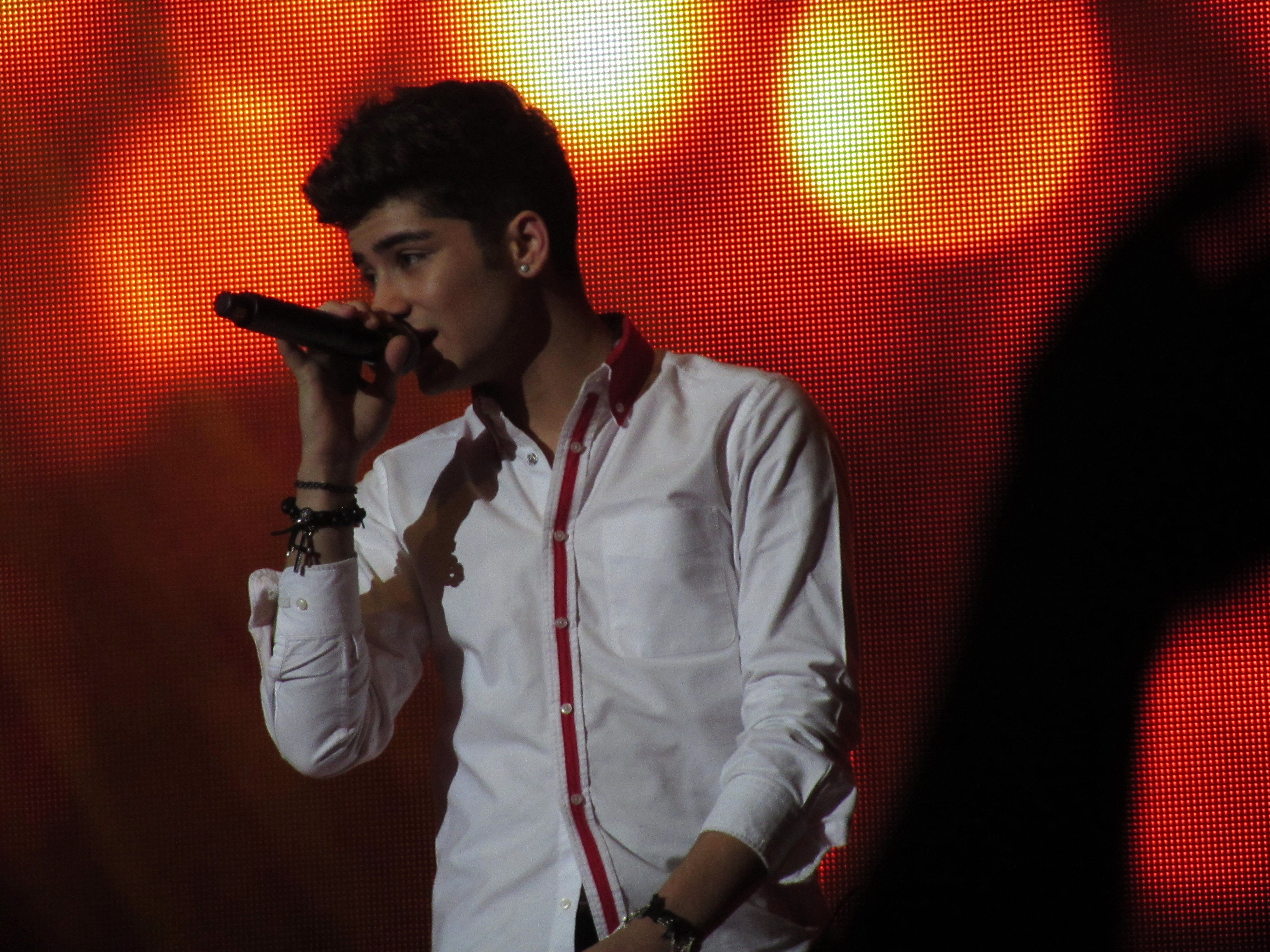 Zayn, One Direction, Clyde Auditorium, Glasgow, Saturday 14 January 2012